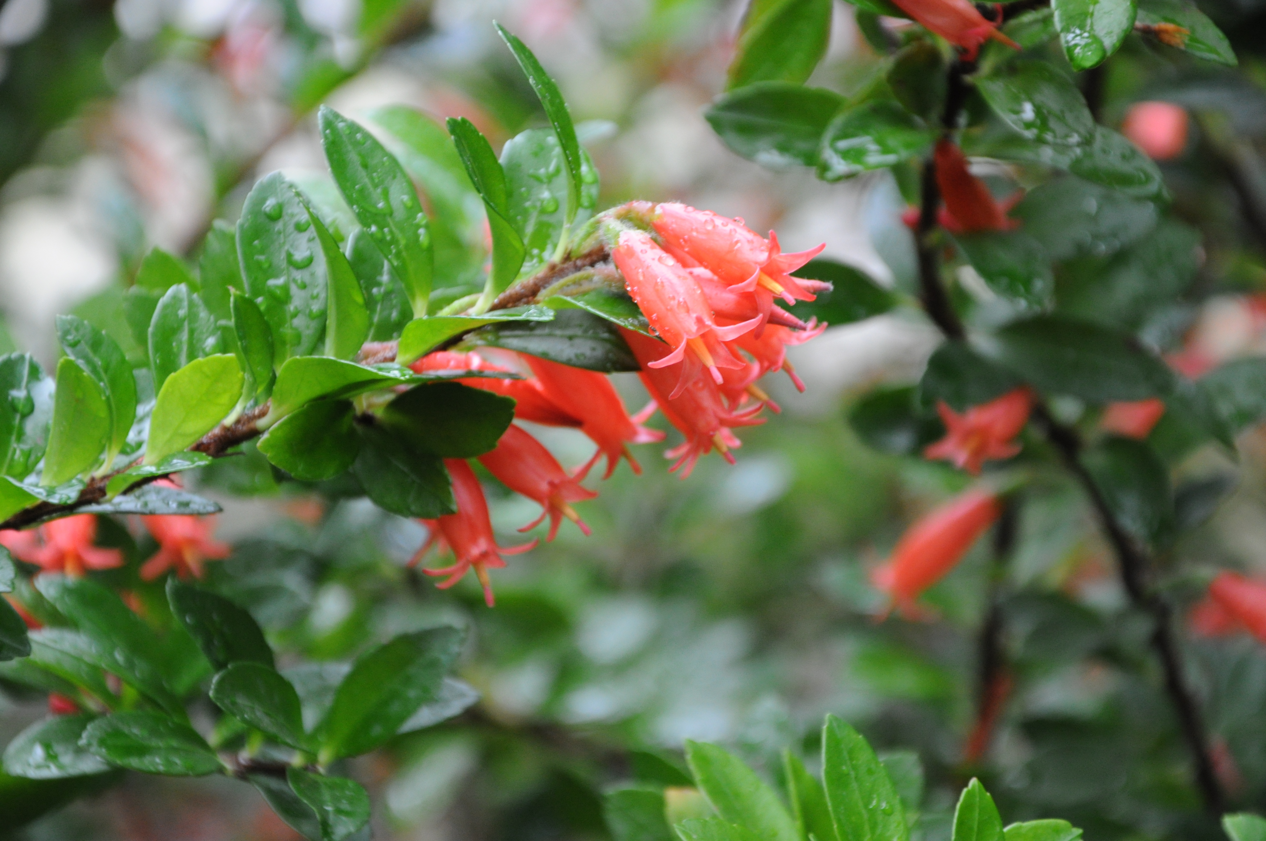 Agapetes buxifolia